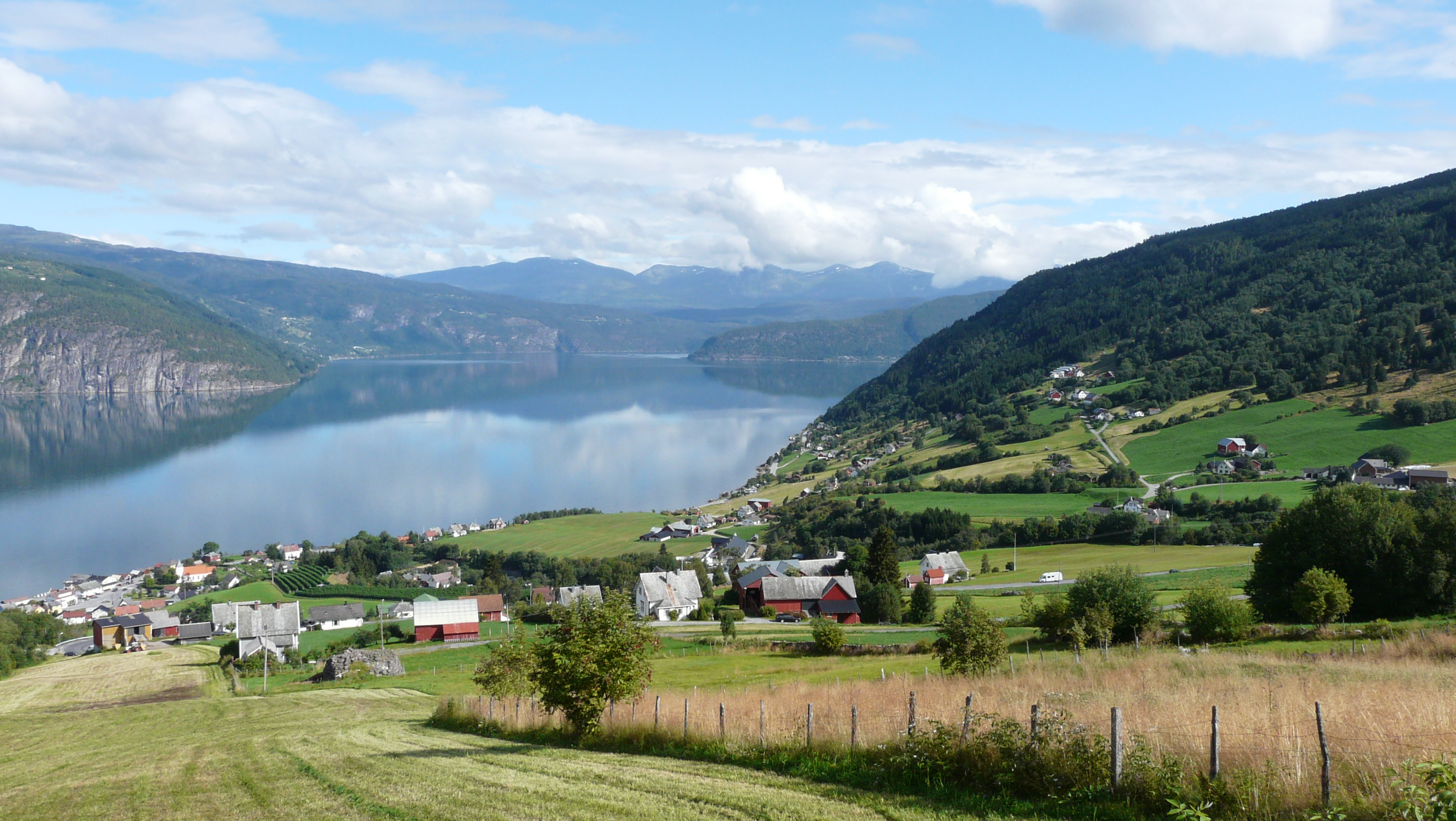 A view to Nordfjord as seen from by the Riksvei 60 coming down from Utvikfjellet. The picture has been taken in 2008 August.